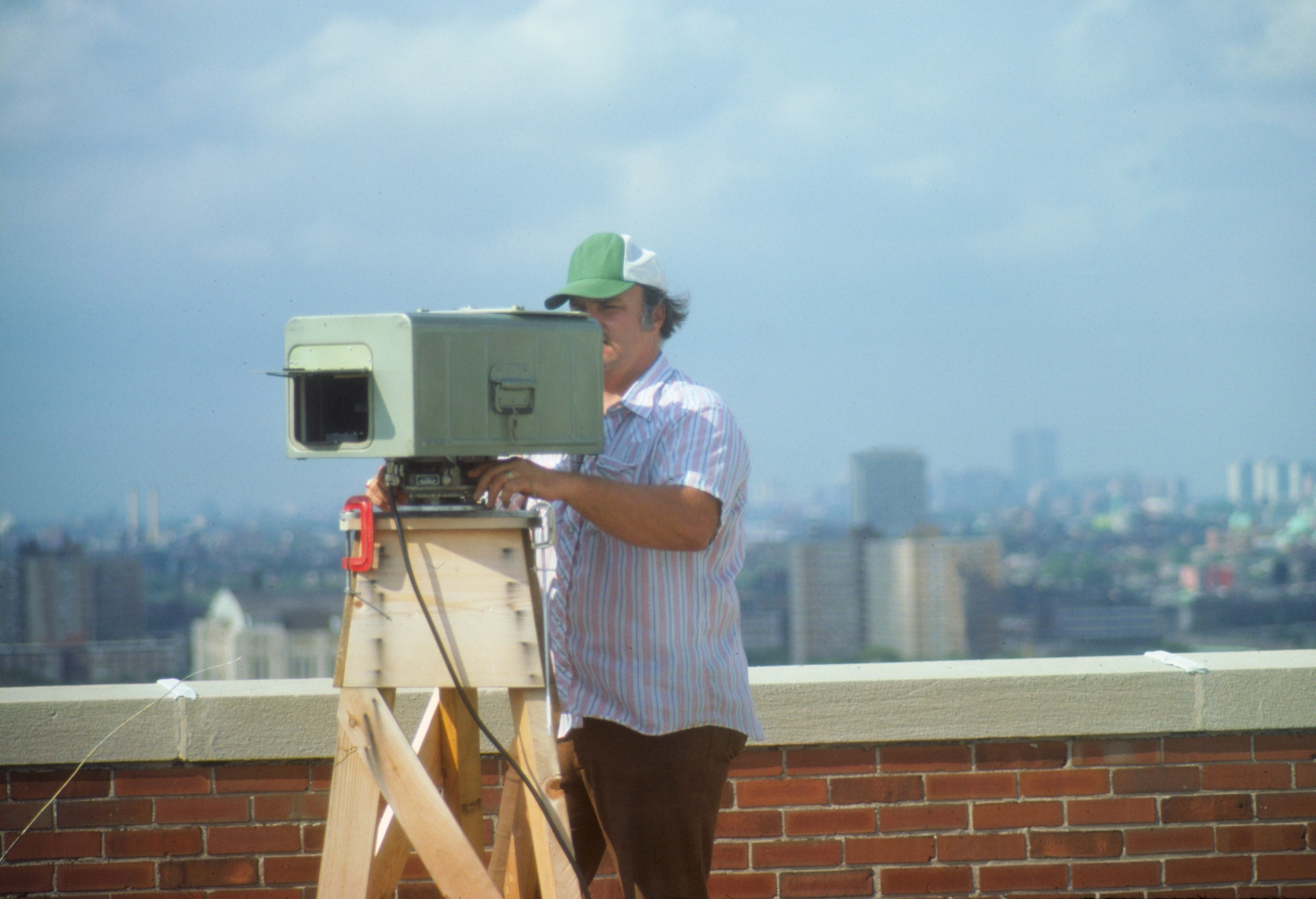 Monroe Rivers with Model 8 Geodimeter (electronic distance measuring instrument ) . The Geodimeter is on a 4-foot wooden stand on top of a building. Location: Illinois, Chicago